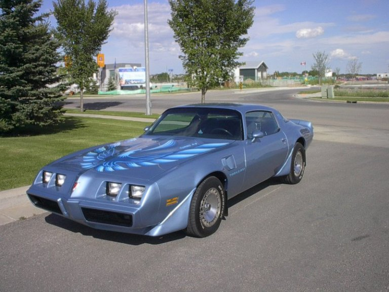 A picture of a 1981 Turbo Trans Am